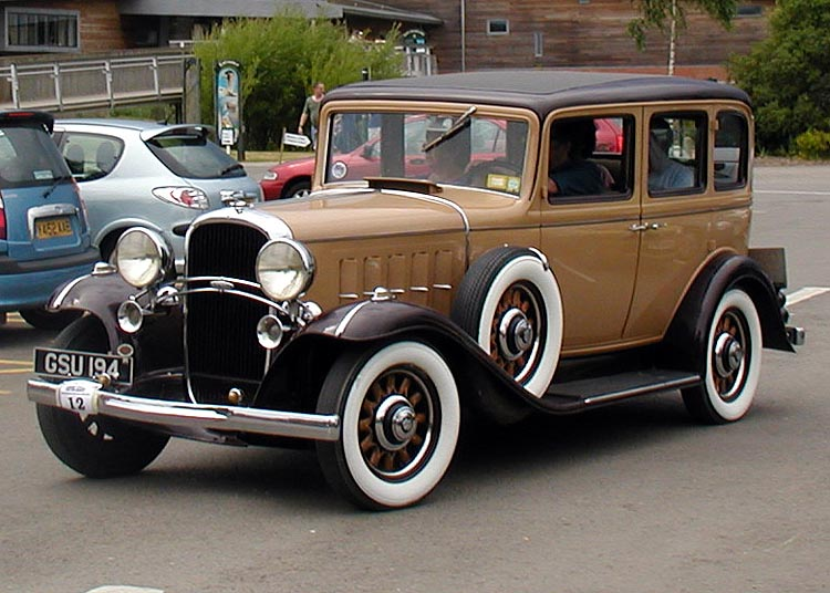 Oldsmobile Patrician Sedan of 1932 at a Classics Rally in 2003. Photographed in Bristol, England by Adrian Pingstone and released to the public domain.